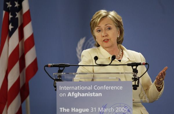 Hillary Clinton at the International Conference on Afghanistan in The Hague, March 31, 2009.